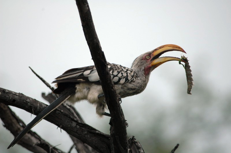 Tockus leucomelas, Southern Yellow Billed Hornbill Feeding on caterpillar